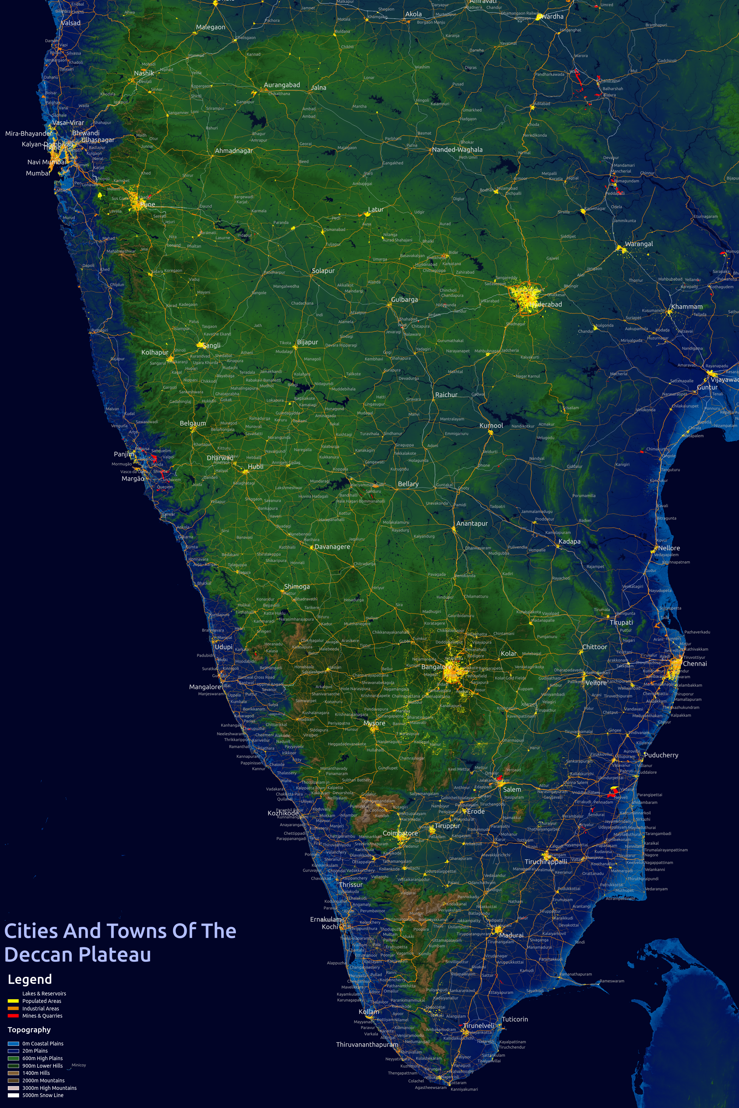 Map of the Cities and Towns in the Deccan Plateau, India. Generated in QGIS using Openstreetmap and SRTM data.